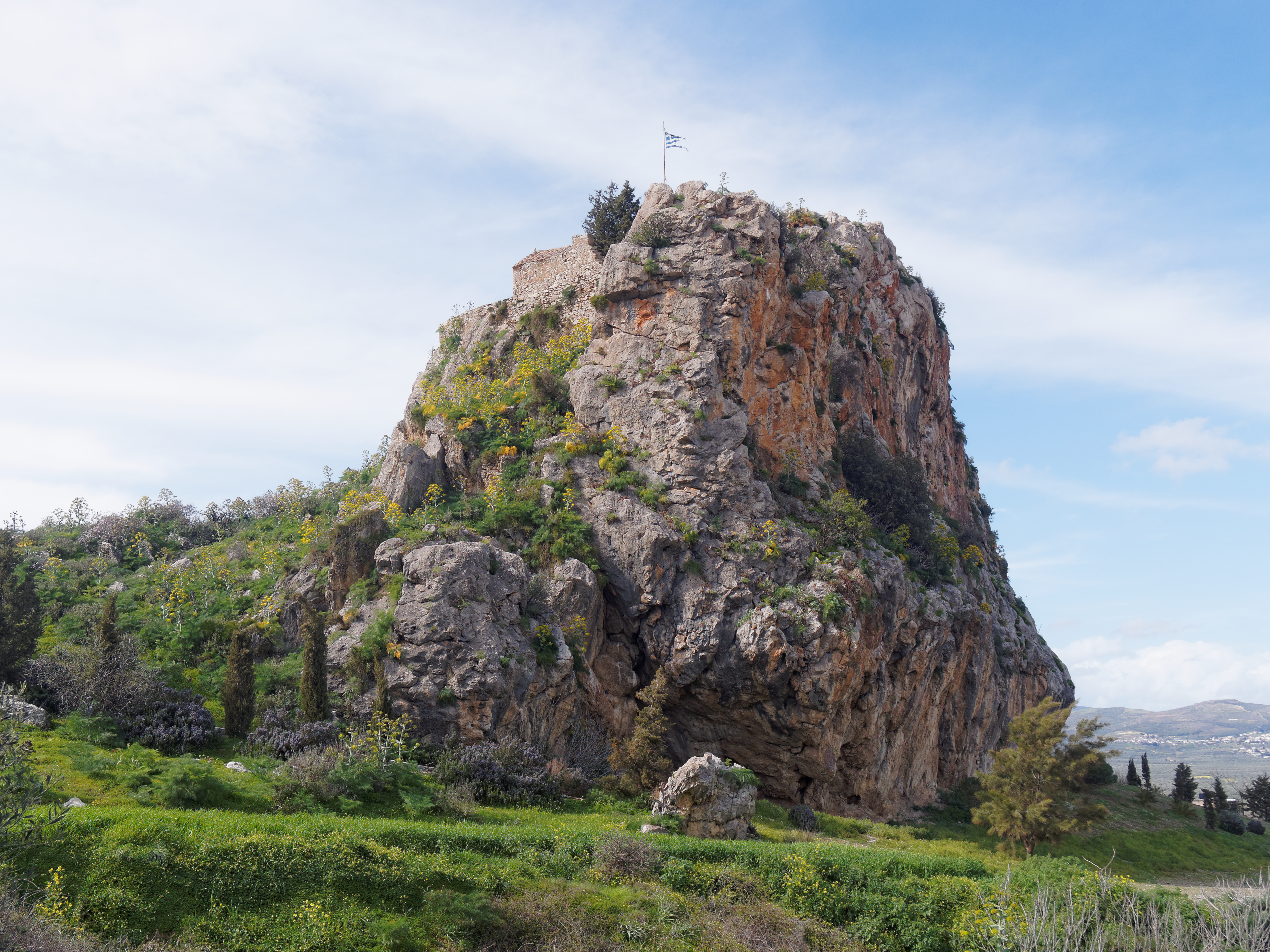 The monolithic stone (known as Charaki), on top of it is located the castle of Charakas.